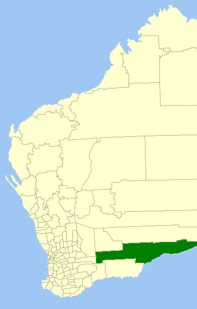 Location of the Local Government Area in Western Australia